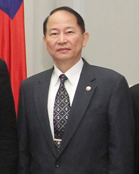 Tung Hsiang-lung, Minister of the Veterans Affairs Council.